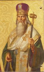 Patriarch Tarasios (Ταράσιος) of Constantinople